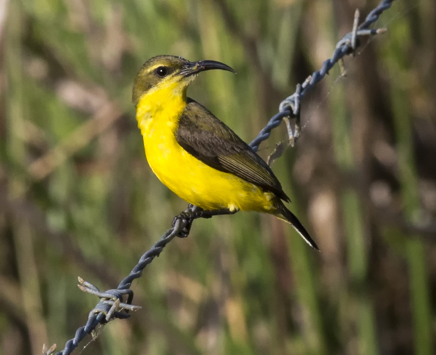 She is sitting on a fence that crosses a drain. The nest is on a lower strand of that fence, above the water